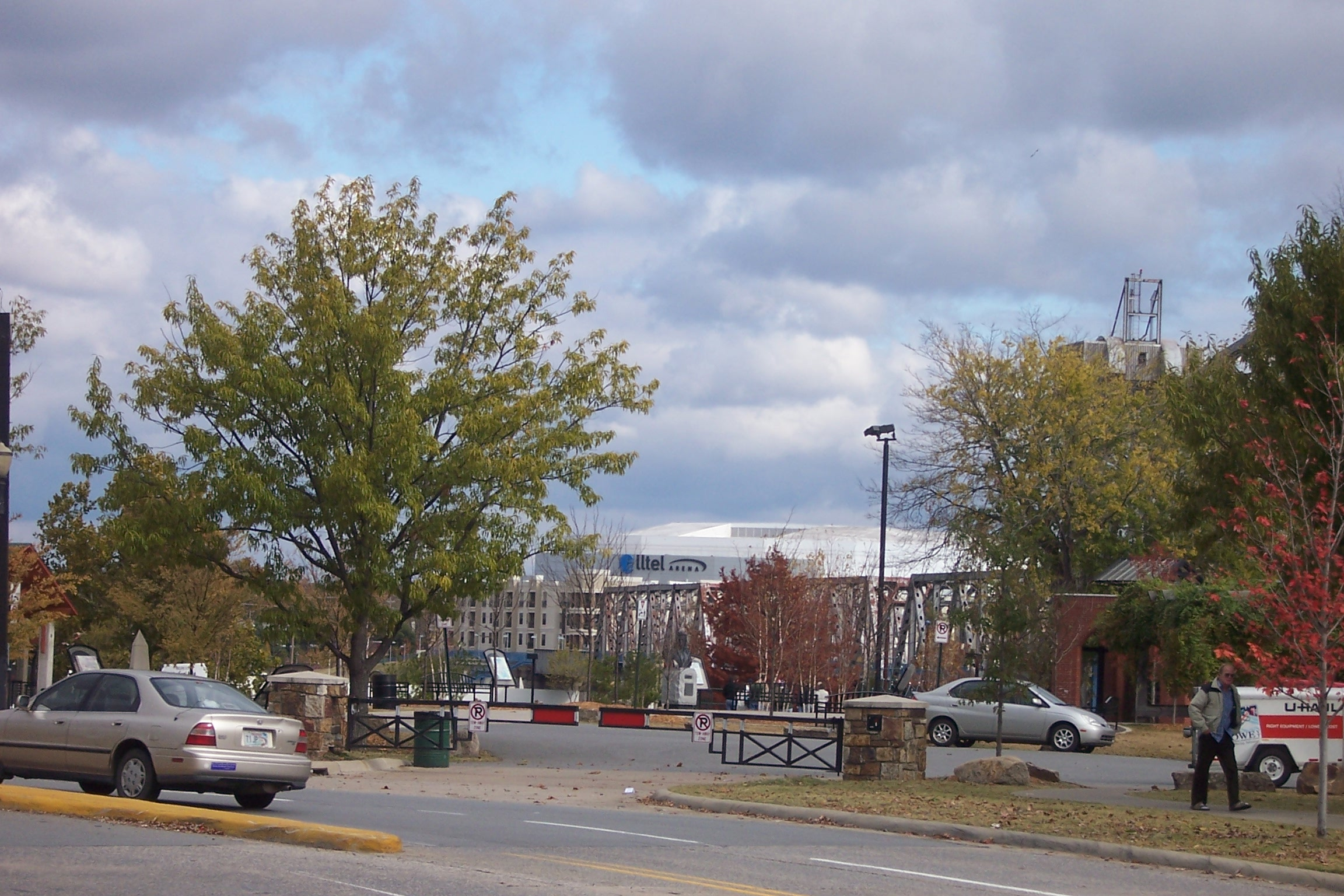 Verizon Arena (Alltel Arena), seen from across the river in Little Rock